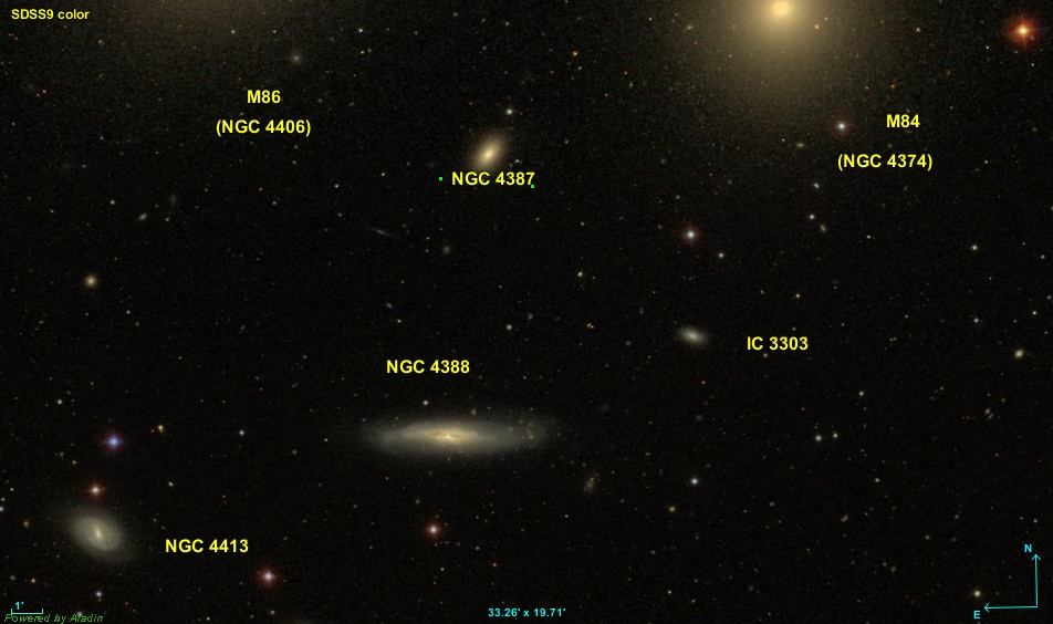 Image created using the Aladin Sky Atlas software from the Strasbourg Astronomical Data Center and SDSS (Sloan Digital Sky Survey) public data.